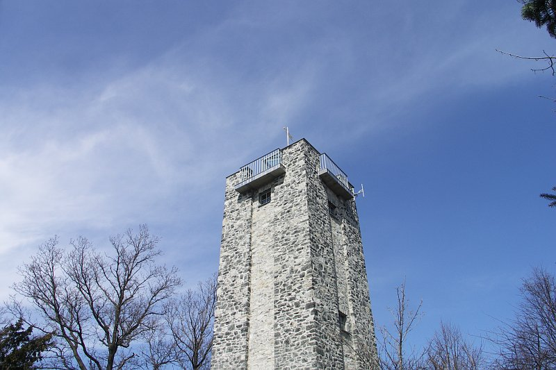 Dr. Curt-Heinke-Turm, Saxony, Germany